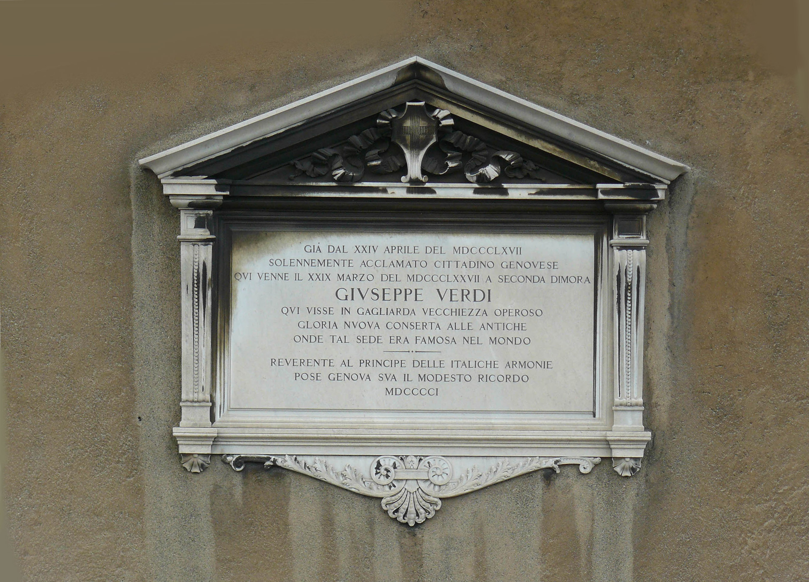 Commemorative plaque of Giuseppe Verdi in Villa del Principe, Genoa - Italy.